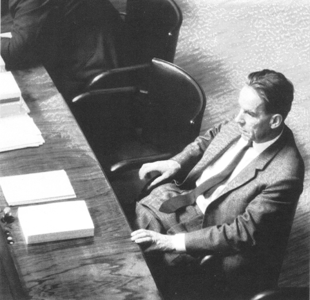 Photograph of the Finnish theologian and politician Mikko Juva (1918–2004) at the Finnish Parliament.